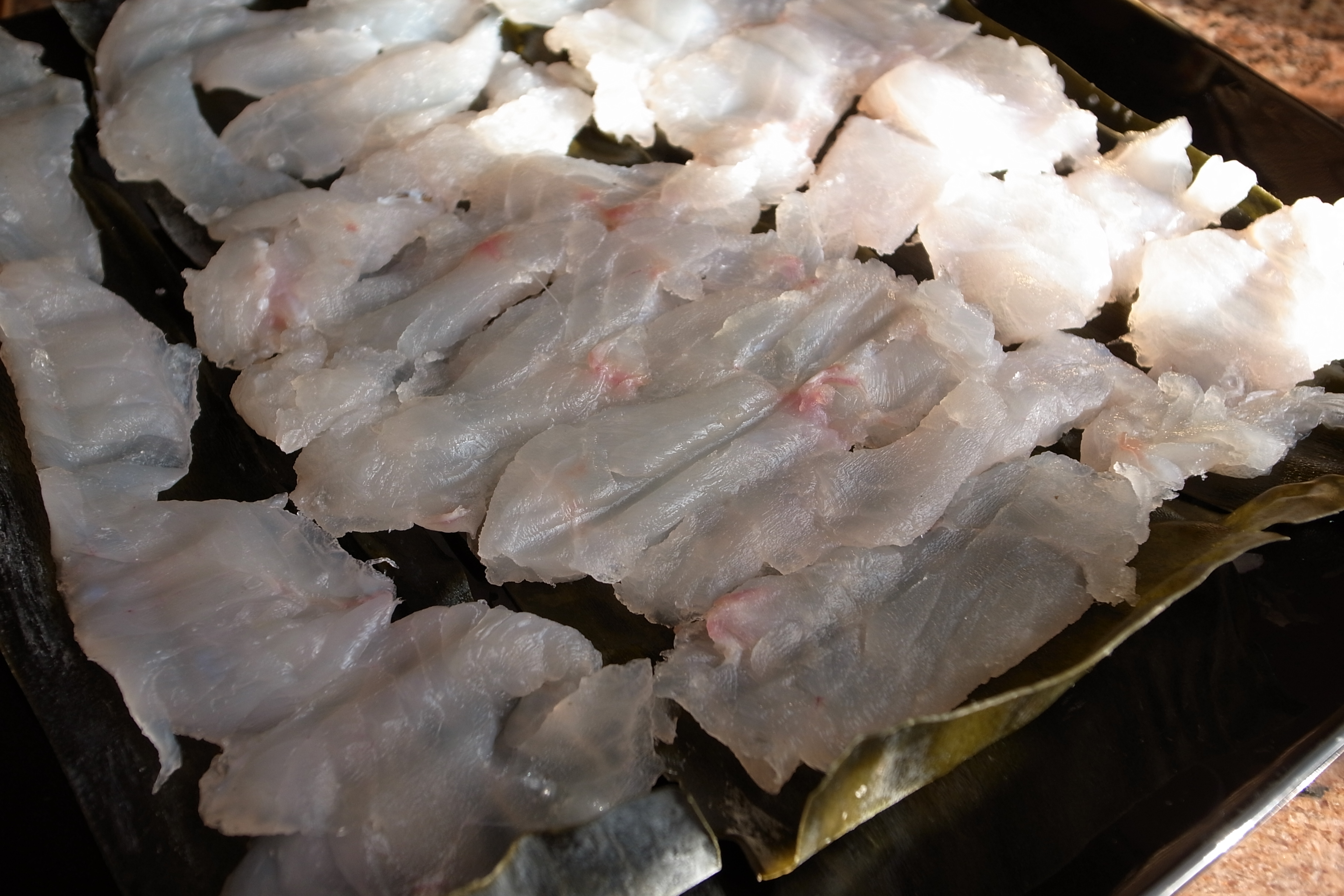 Rockcod freshly caught from a boat off Capitola, CA, sashimi-cut and laid over kombu seaweed wet with Japanese sake and a bit of vinegar. Delicious.